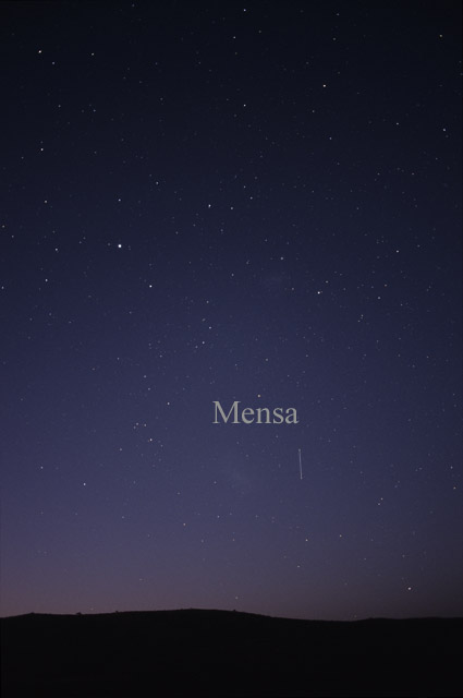 Photography of the constellation Mensa, the table